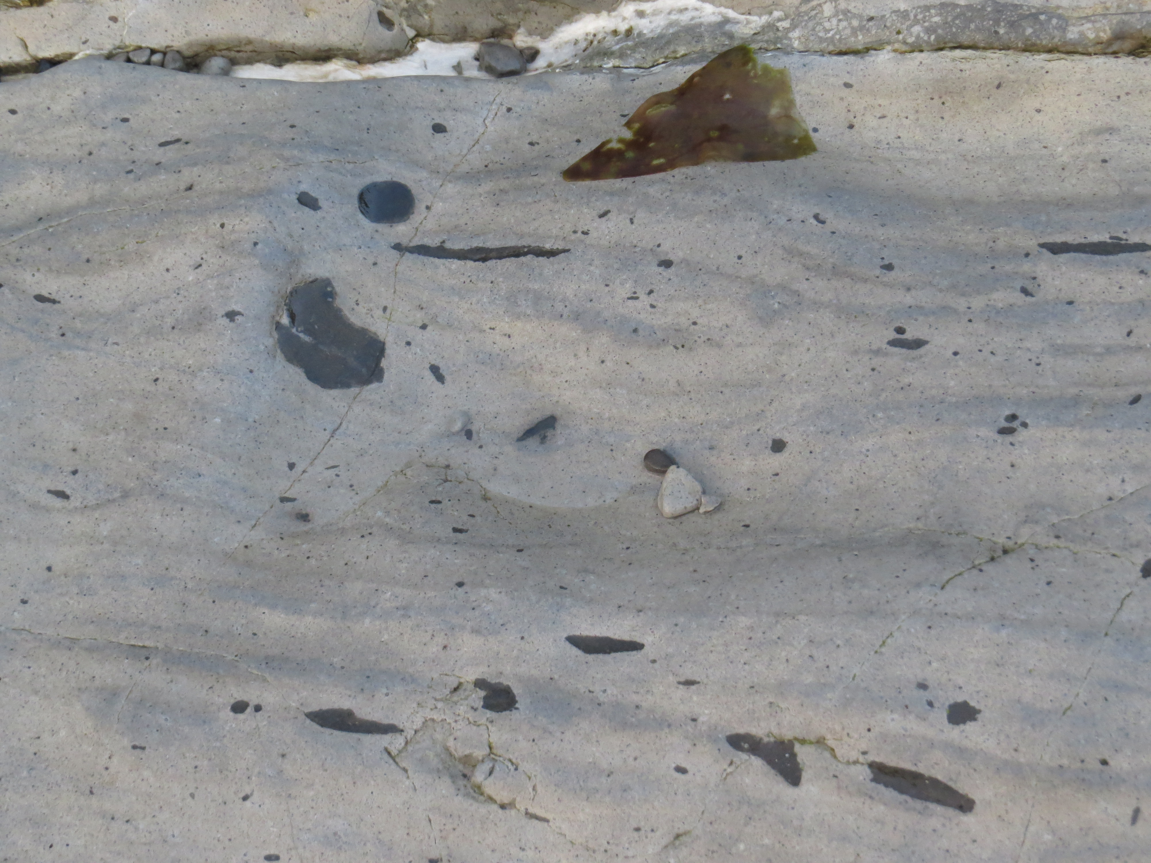 A composite volcanic dyke, containing rounded inclusions of basalt in rhyolite, near Streitishvarf in Iceland.